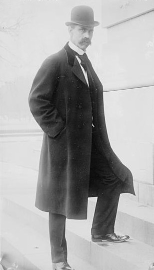 Reed Smoot (1862 – 1941), U.S. Senator, prominent leader of The Church of Jesus Christ of Latter-day Saints